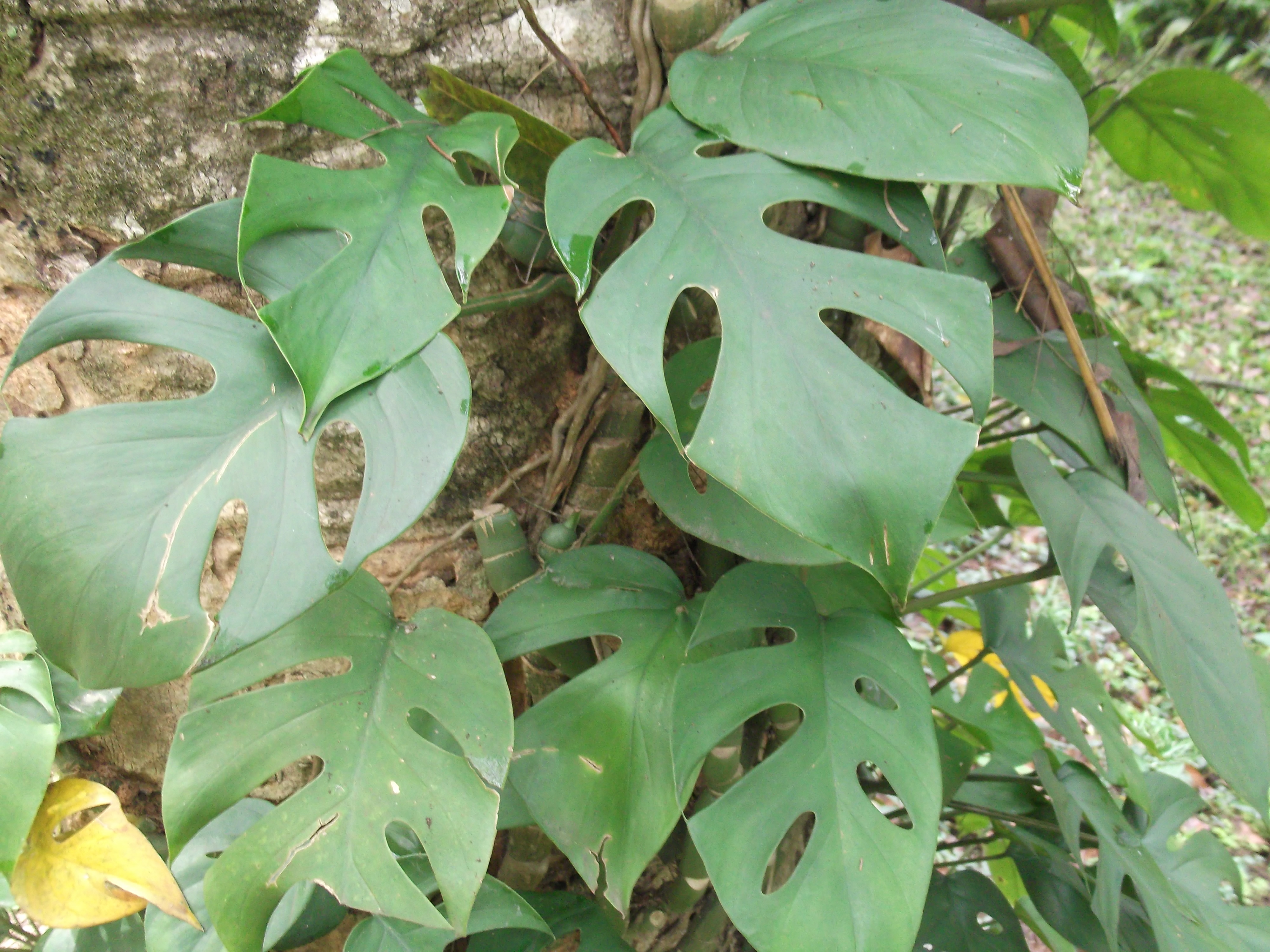 Stesm green,leaves ditichous.